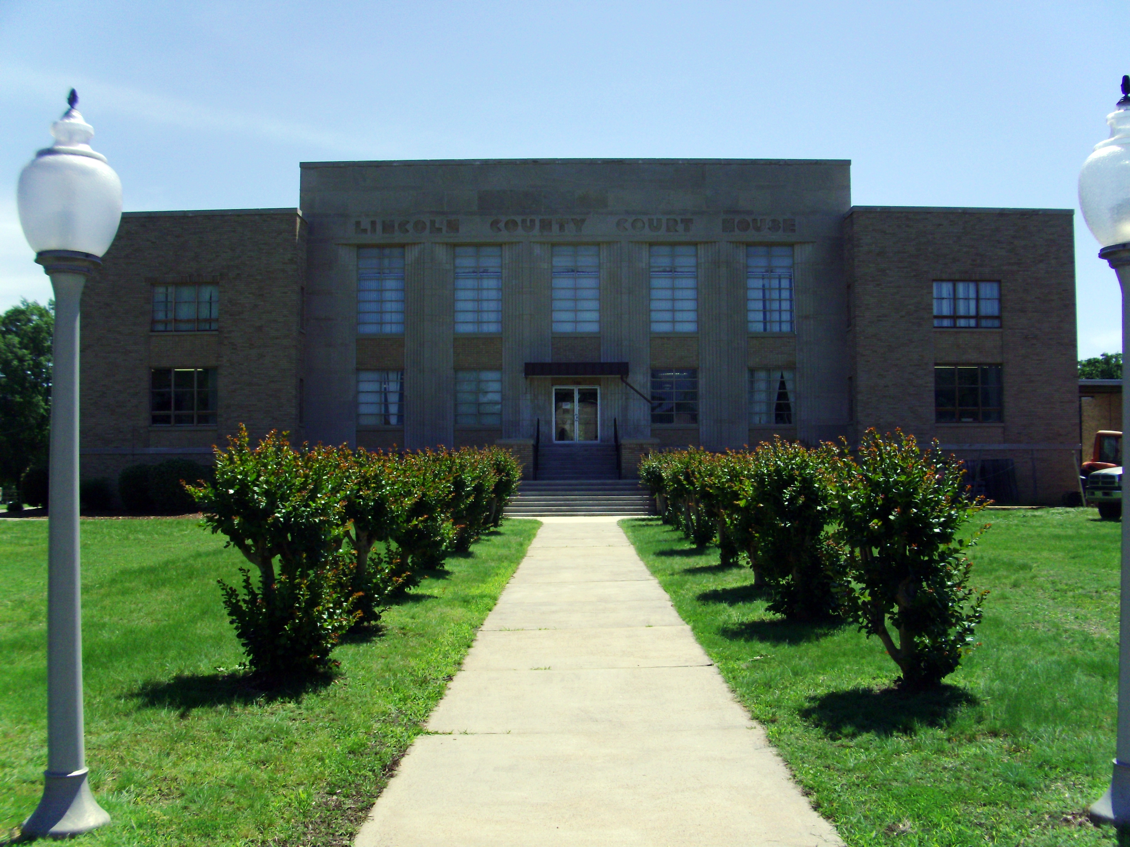 Street view